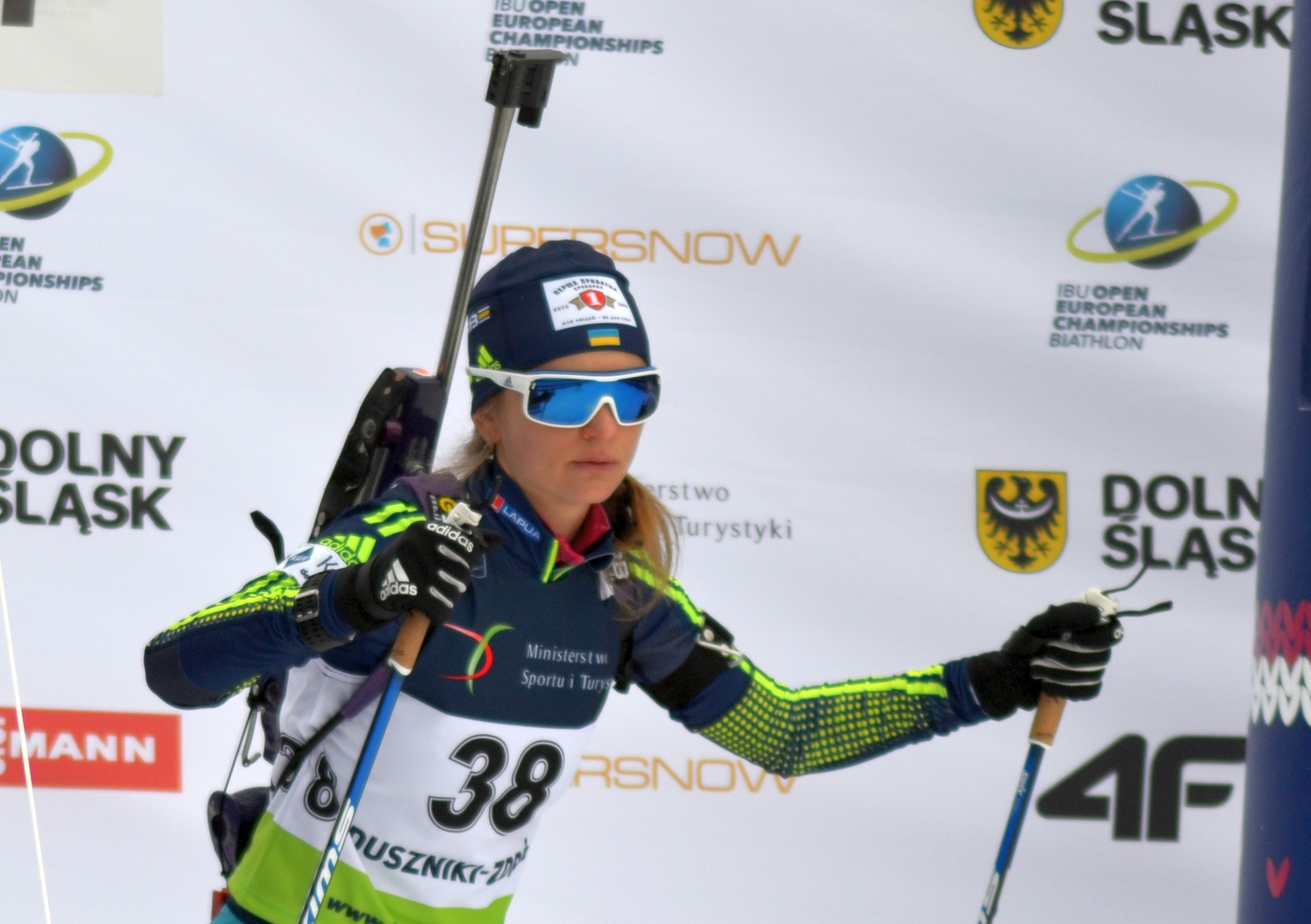 Open European Championships Biathlon 2017, Individual Women's race, held on January 25th.